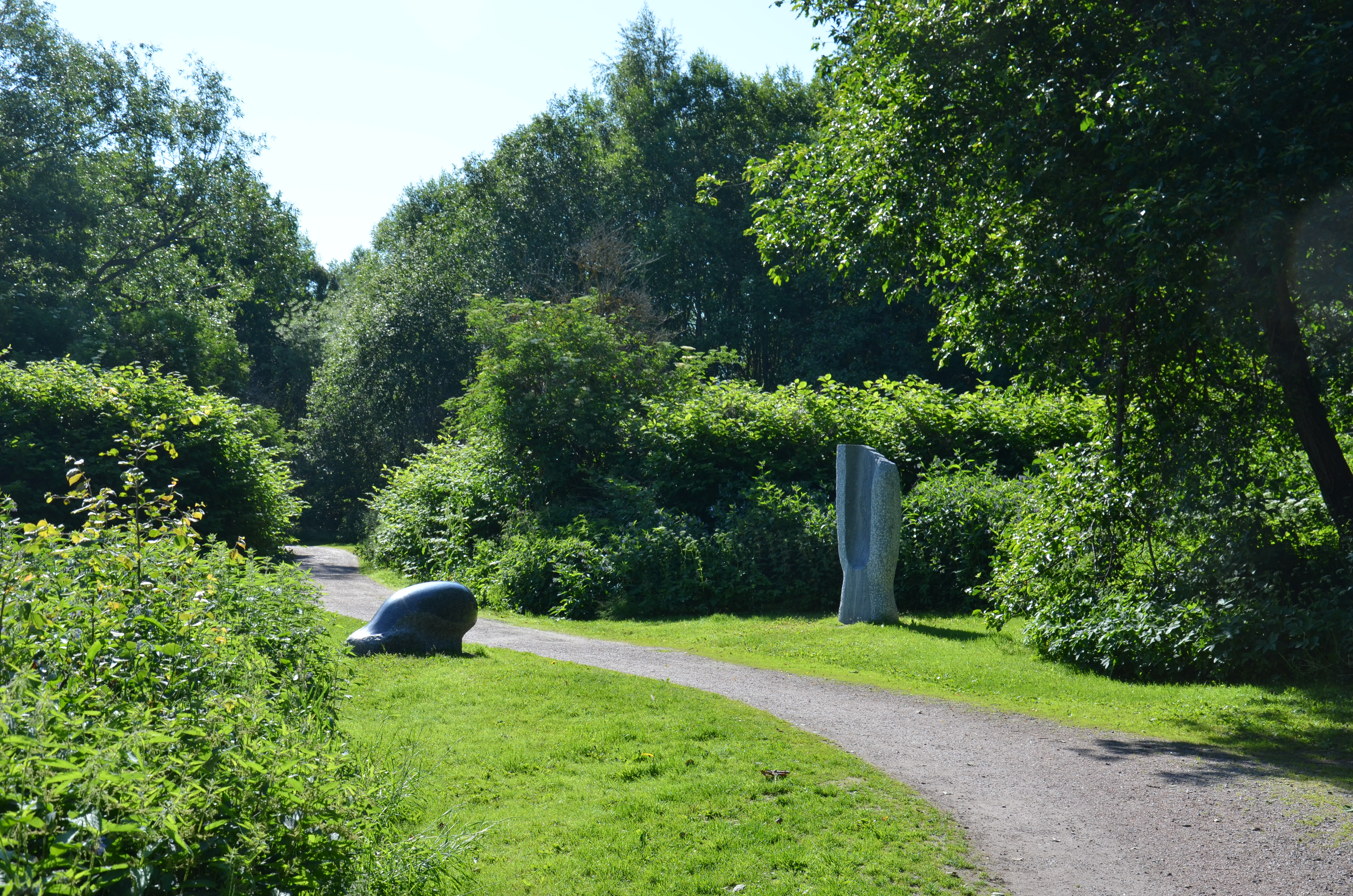 Mellan två vatten av Ann Carlsson Korneev, sculpture park Lilla Å-promenaden in Örebro, 2000, Ekeberg marble and larvikite